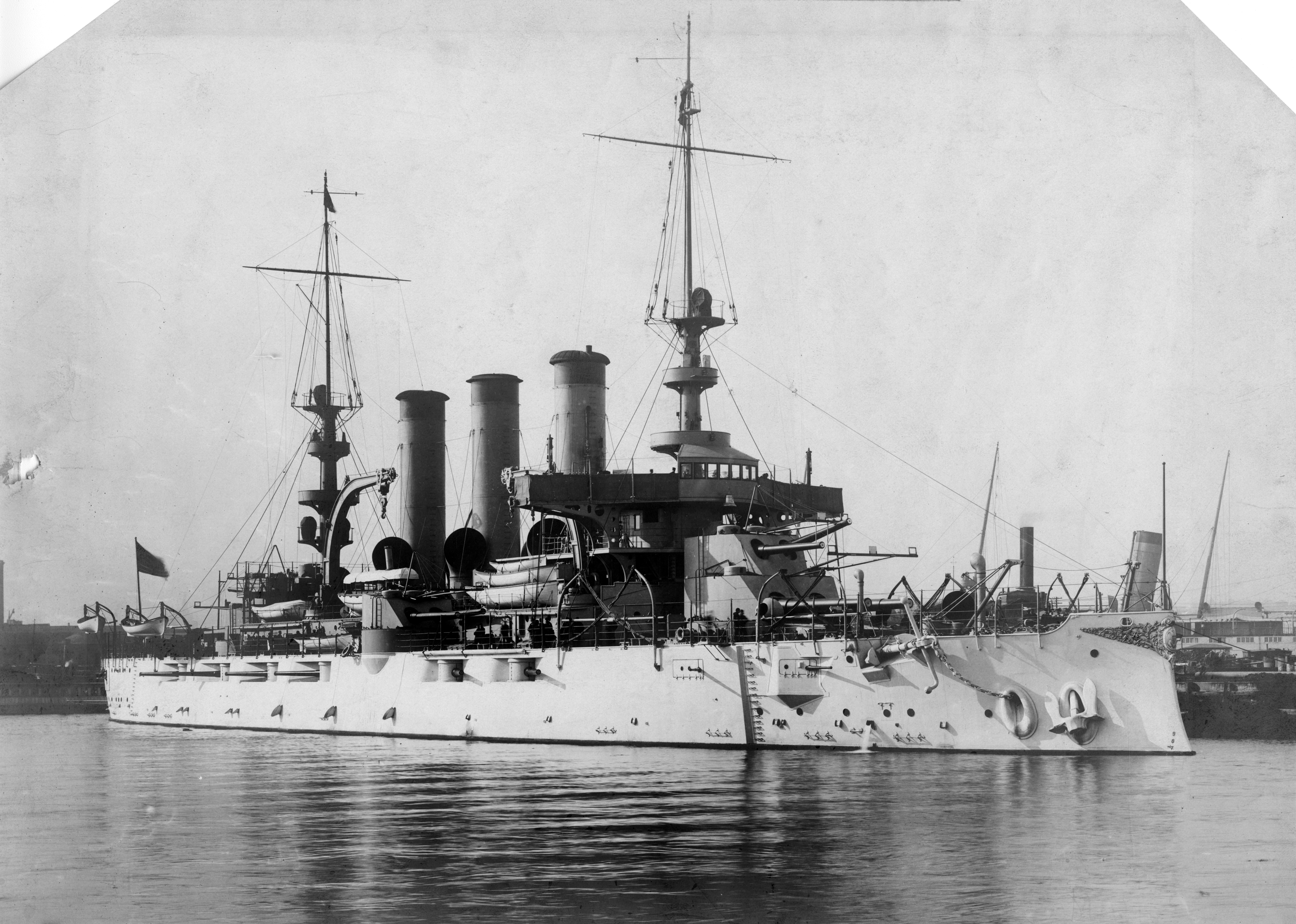 Removed caption read: Photo # NH 10557 USS Virginia in port